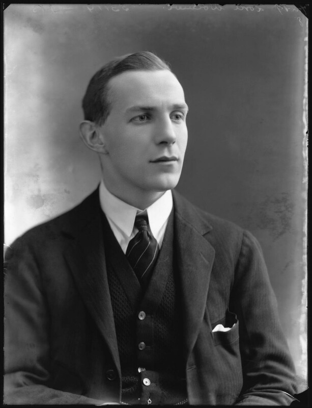 Lord Selbourne